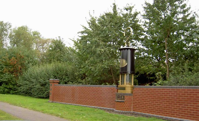 Miner's lamp Piccadilly